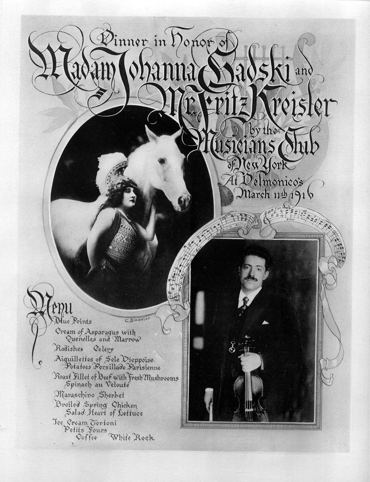 Menu for a dinner held at Delmonico's restaurant by the Musicians Club of New York in honor of Fritz Kreisler and Johanna Gadski